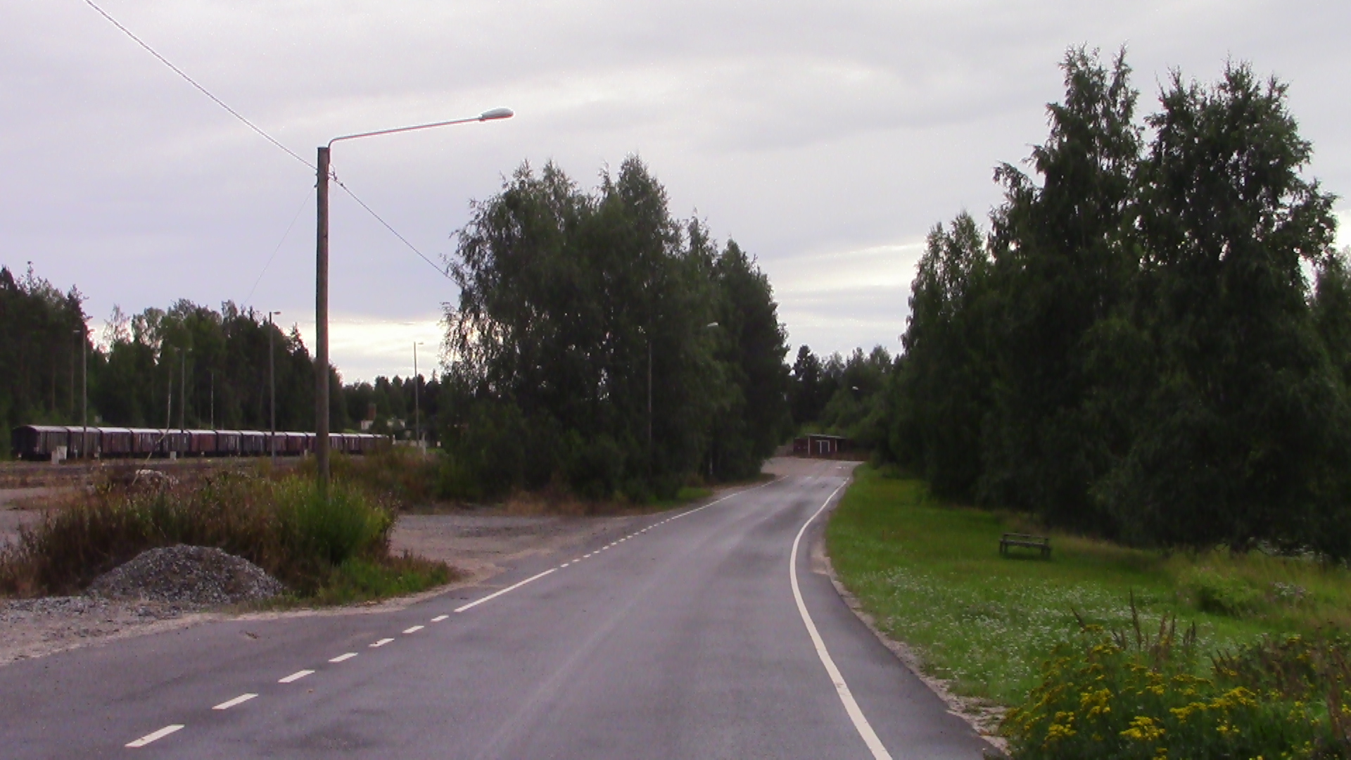 Connecting road 6043 at Haapamäki village in Keuruu, Finland. The road runs from connecting road 3481 to local timber loading area.